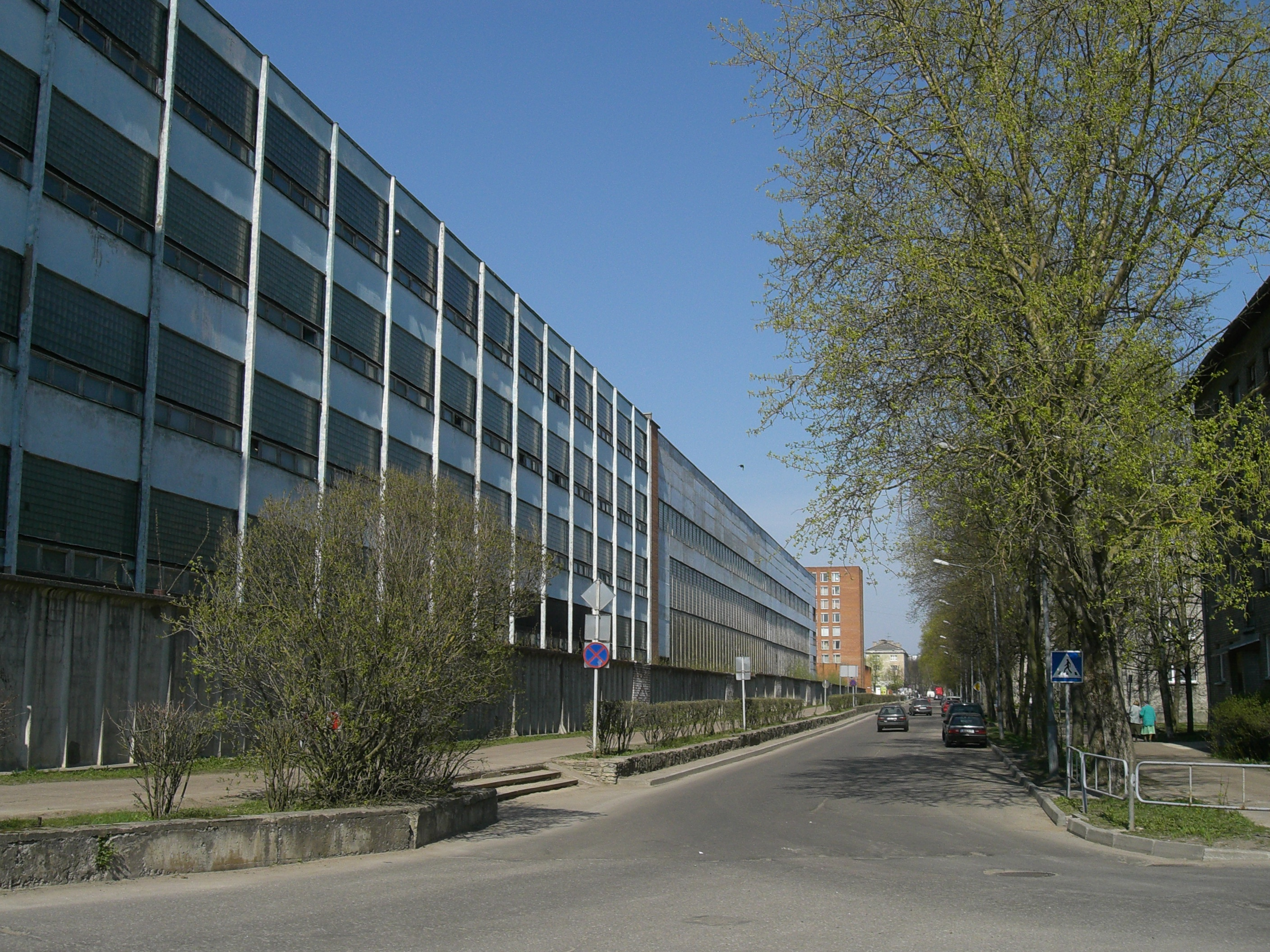 Linda street in Narva town, Estonia.